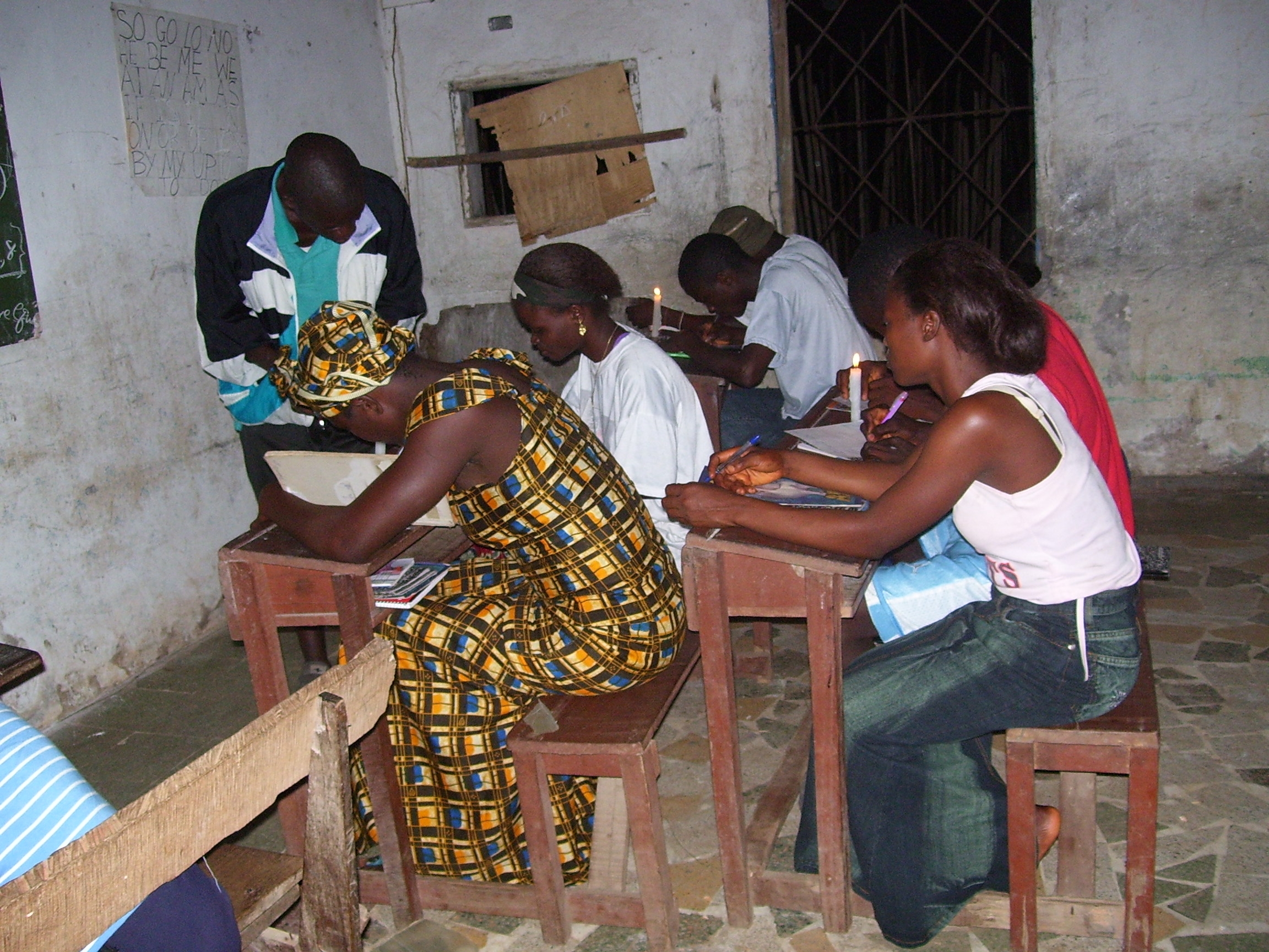 These students in Bong County, Liberia, study by candlelight. They are part of the Accelerated Learning Program in the country, an effort to compress several years of education for older students who missed school during Liberia’s civil war. An education partnership between the United States and Liberia has used a mix of formal and non-formal education approaches. The participants in programs are funded by USAID and the President’s Education Initiative.